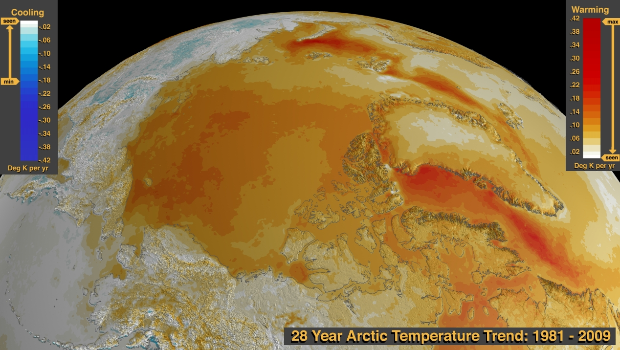 This image shows the Arctic temperature trend between August 1981 and July 2009. Due to global warming, which is exacerbated at the Arctic, we see a significant warming over this 28 year period .